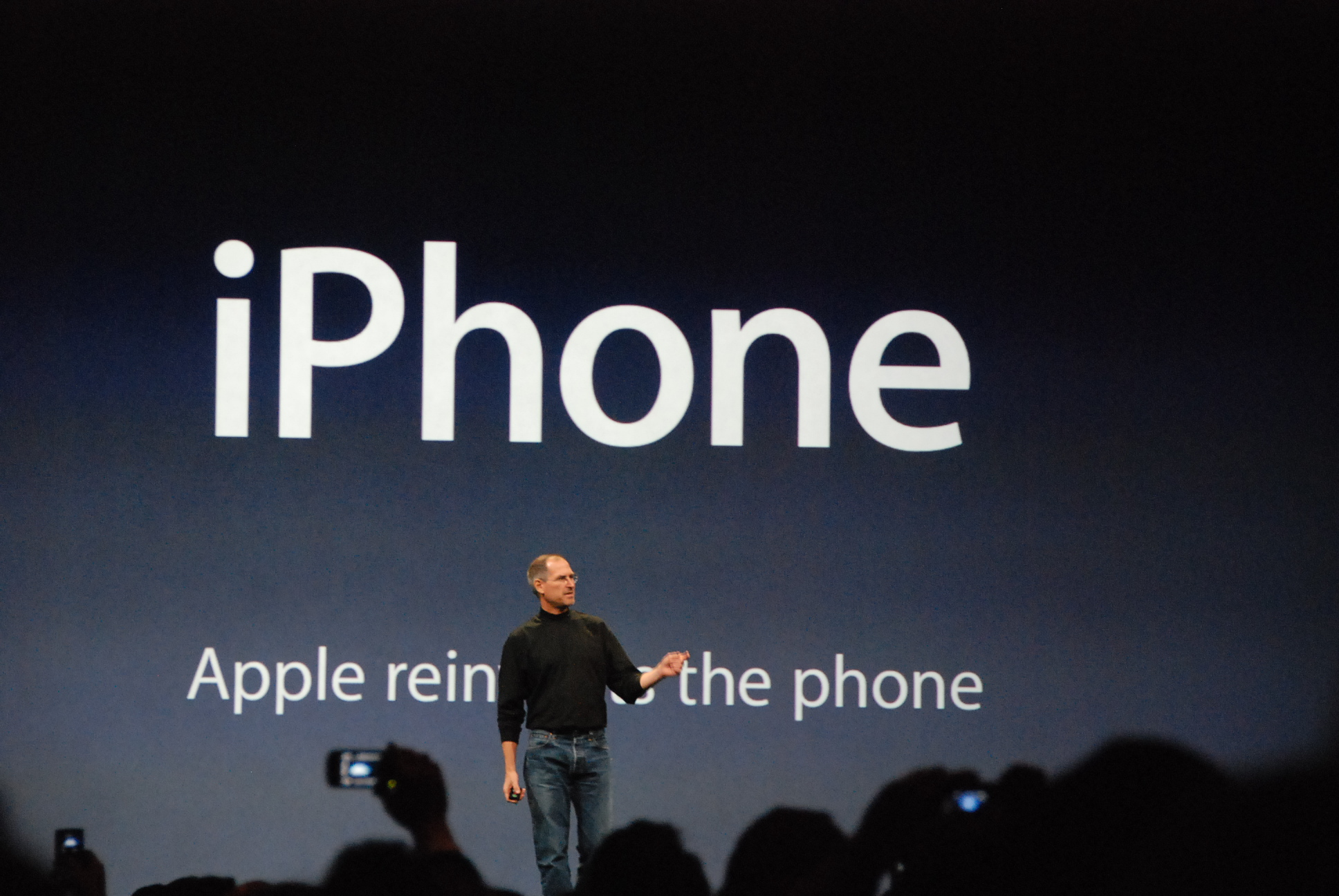 MacWorld Conference & Expo 2007 - San Francisco Steven P. Jobs present Apple's phone : the iPhone